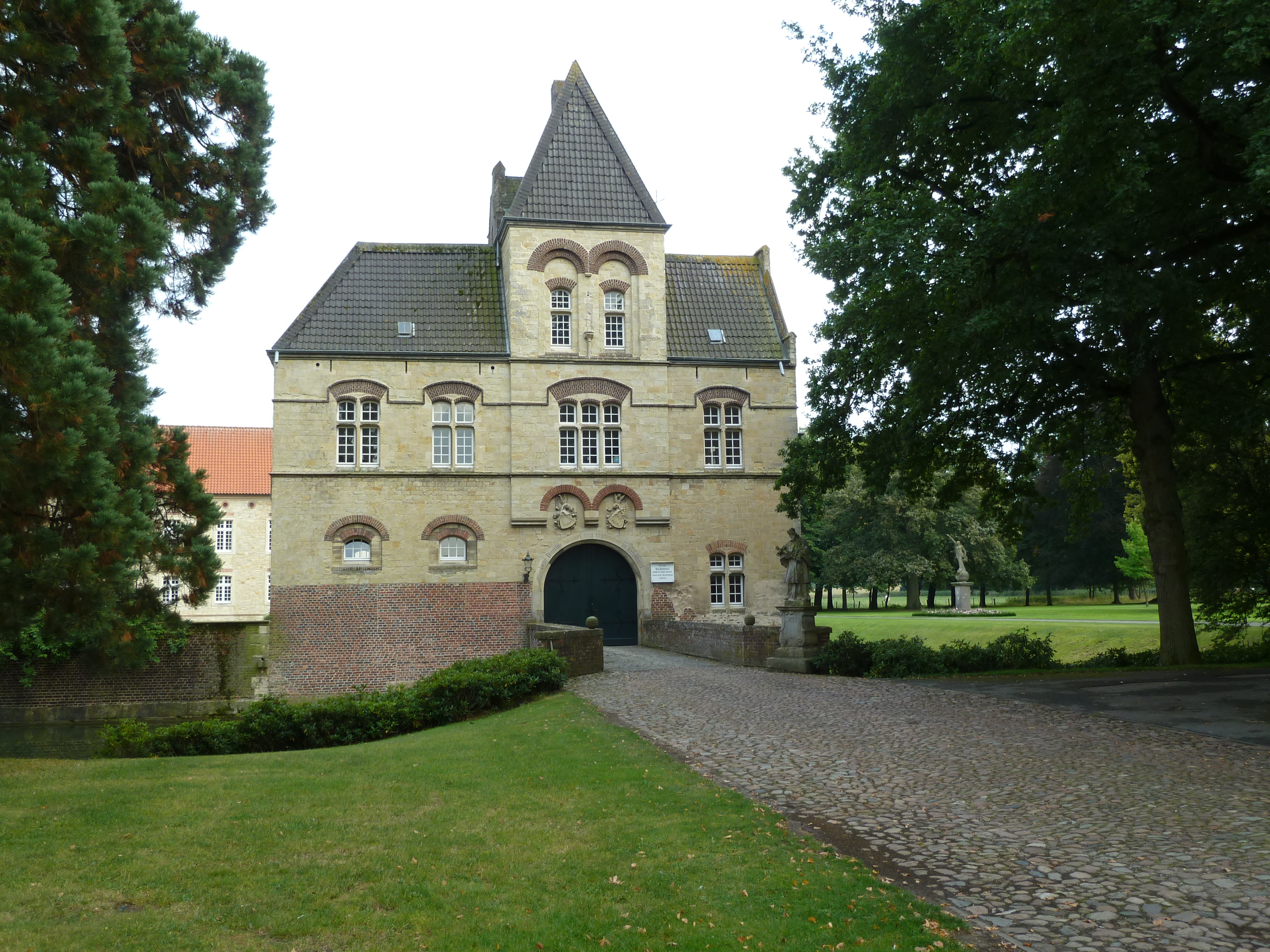 Gateway building of the "Vorburg" of Darfeld castle